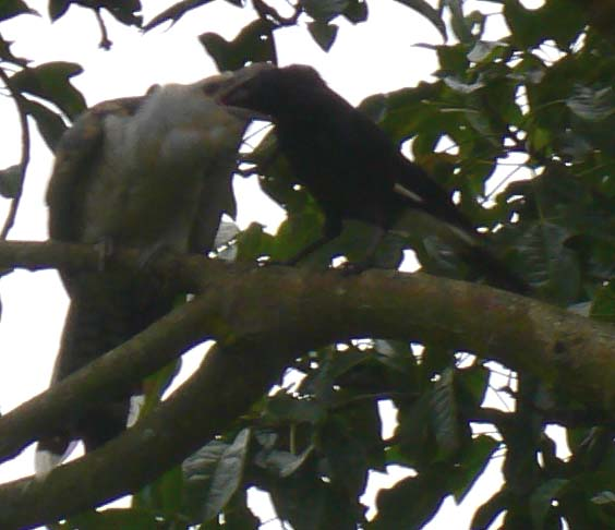 Channel-billed Cuckoo being fed by much smaller "mother" Pied Currawong.